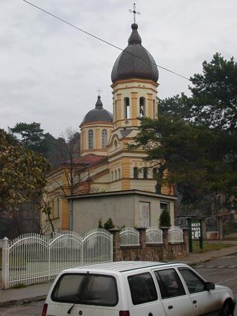 Church of the Mother of God built by the Bulgarian authorities in 1892 in Tsaribrod, present day Dimitrovgrad, Serbia.